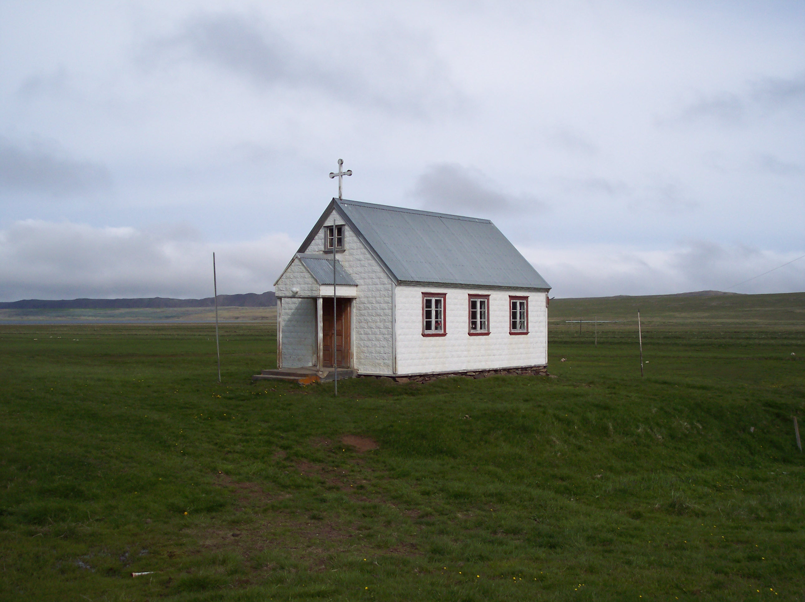 The church at Vesturhópshólar, Húnaþing vestra, Iceland